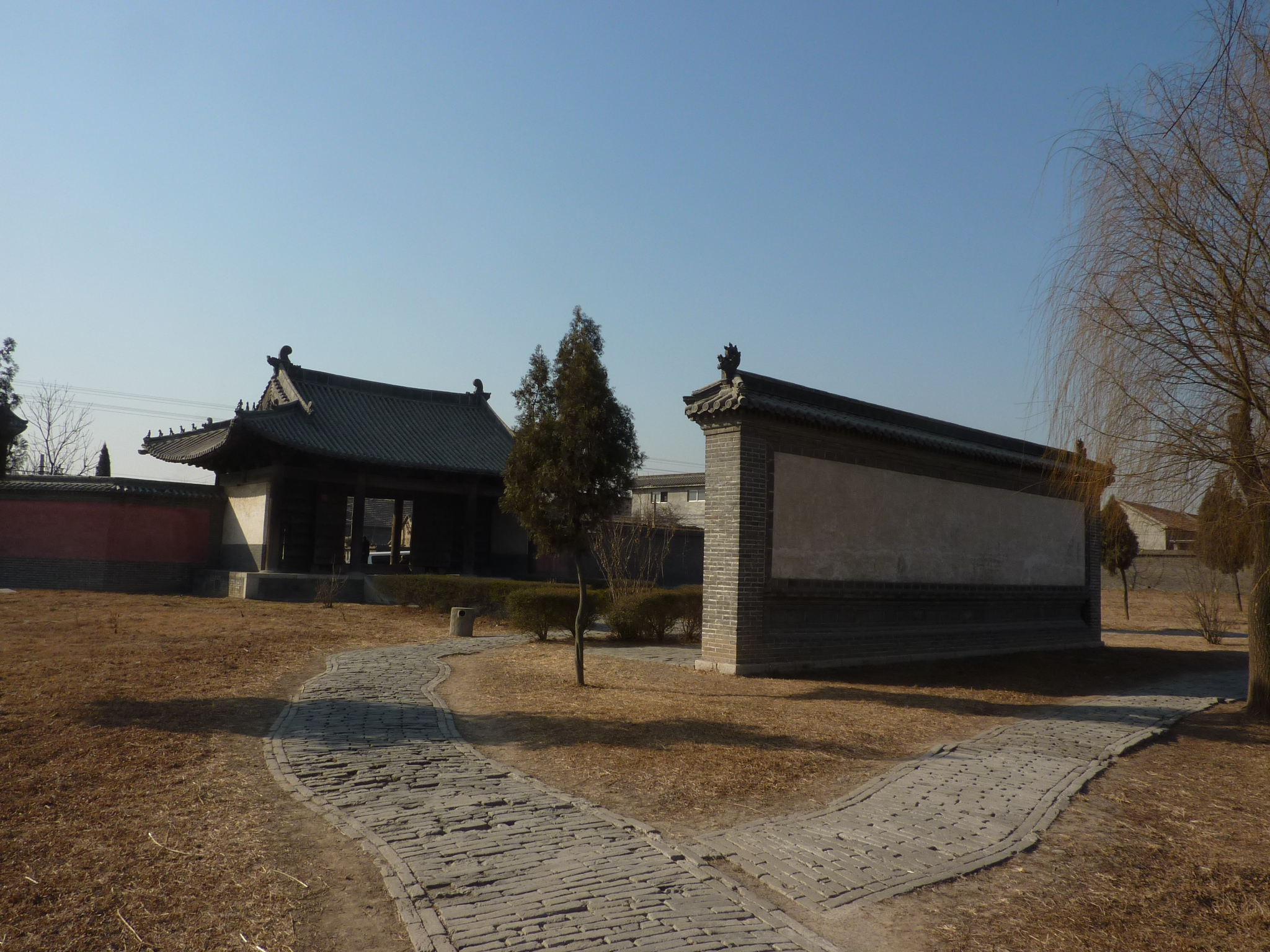 The Shou Qiu site: looking to the southern gate from inside the site. Note the "shadow wall", or yingbi - a solitary wall that would prevent people from outside the gate to see inside.